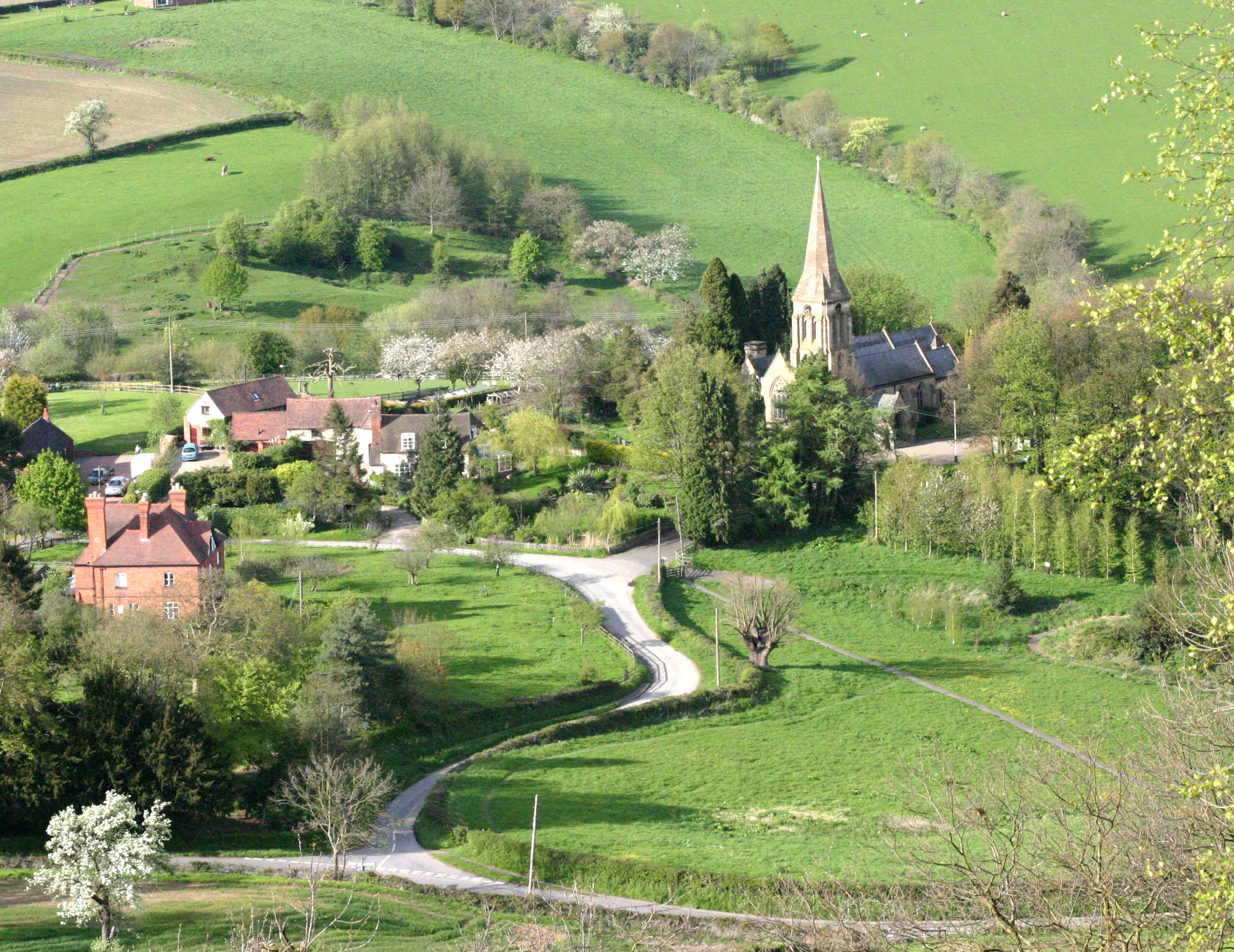 Abberley, Worcestershire, UK: St Mary's Church & Village Green